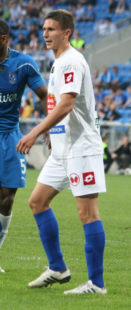 Polish football player Maciej Jankowski